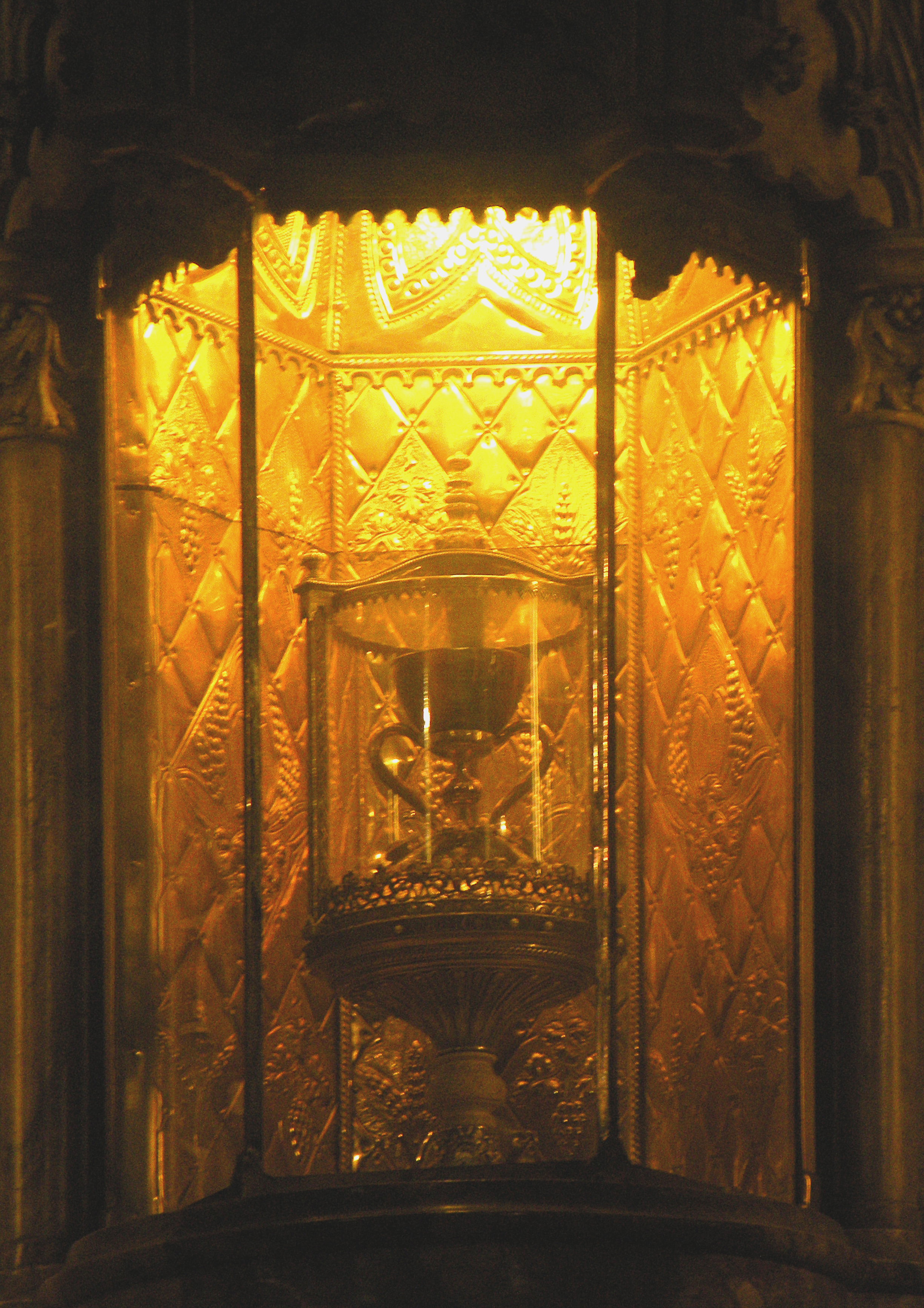 The Holy Chalice of Valencia